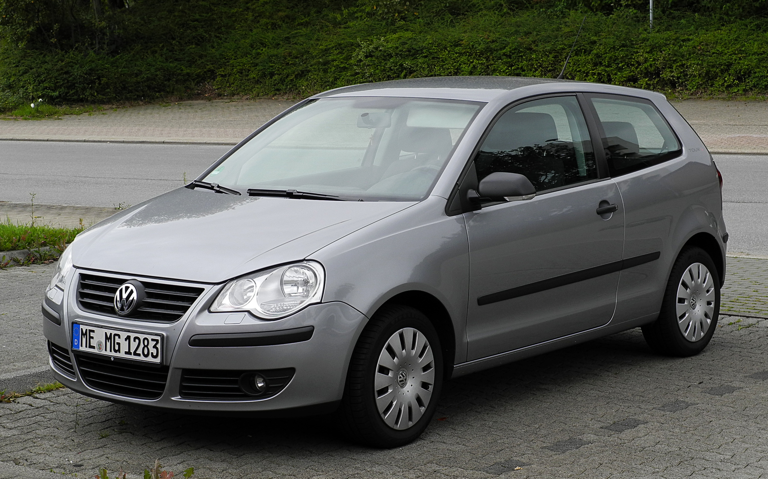 VW Polo 1.2 Tour (IV, Facelift)